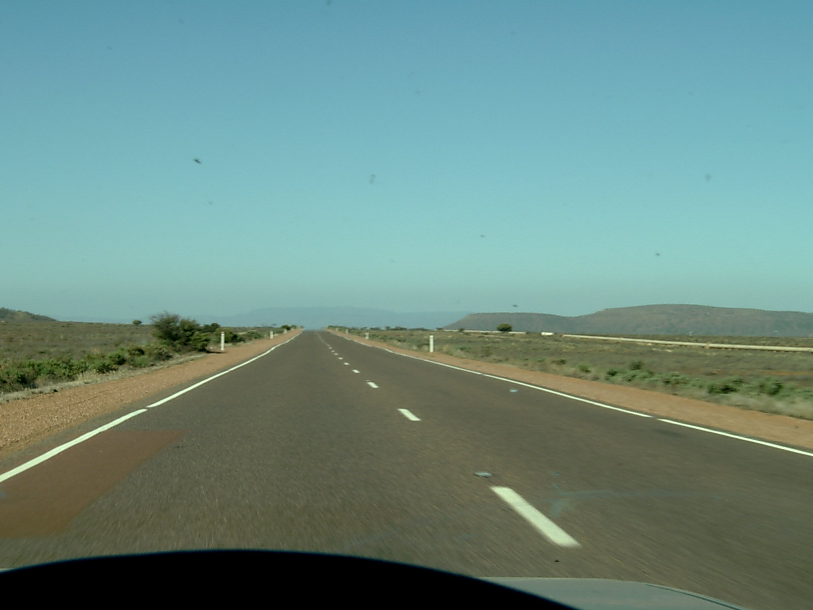 Eyre Hwy. Kids don't try this at home.